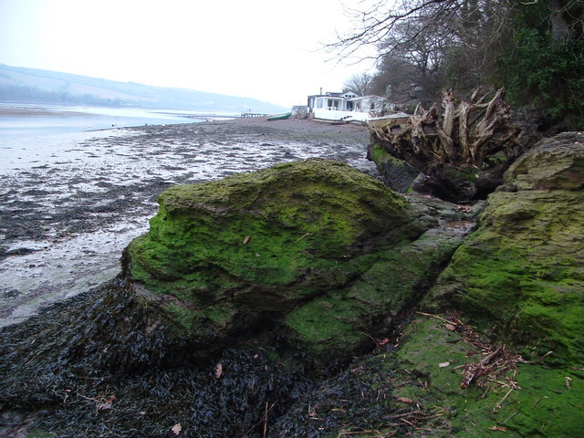 River Teign, Coombe Cellars On the South bank of the River Teign walking from Netherton to Coombe Cellars during the first (very cold and misty) week of February 2006.